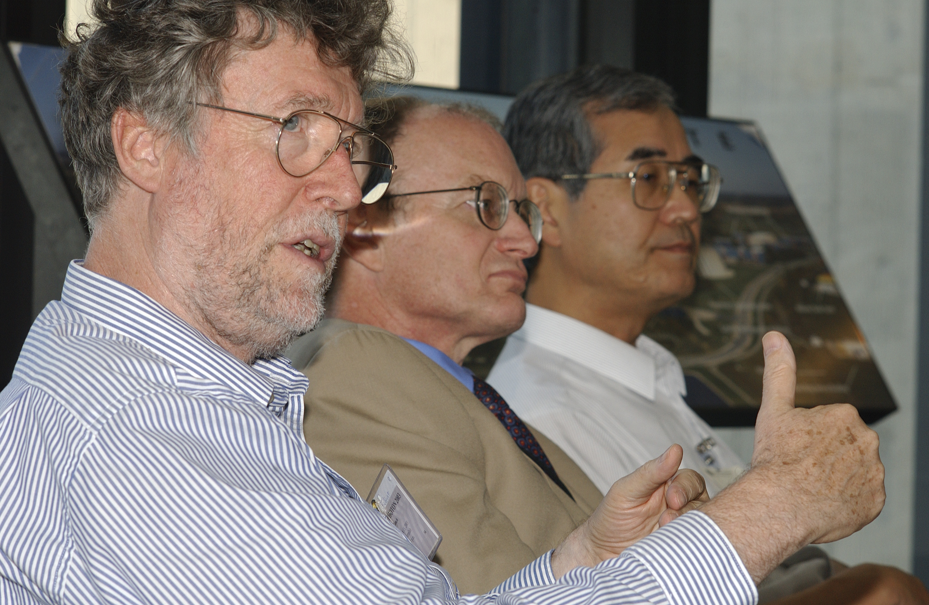 Michael Witherell, Director of the Fermi National Accelerator Laboratory, Albrecht Wagner, Director of the Deutsches Elektronen-Synchrotron, and Yōji Totsuka, Director General of the High Energy Accelerator Research Organization, attended the "Lepton Photon Conference" at the Fermi National Accelerator Laboratory in Illinois State on August 15, 2003.